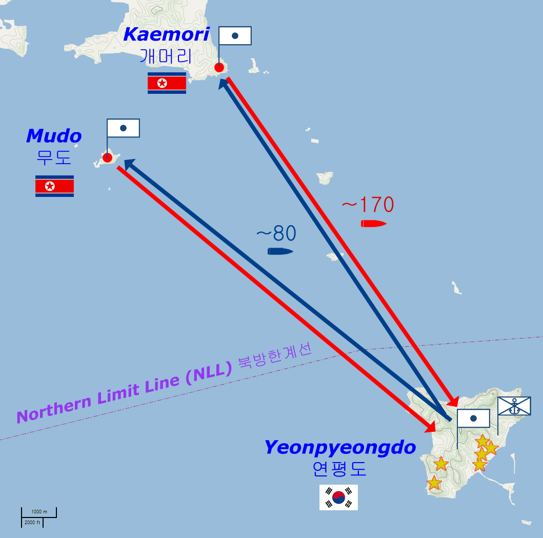 Map of the Yeonpyeong shelling of 23 November 2010.